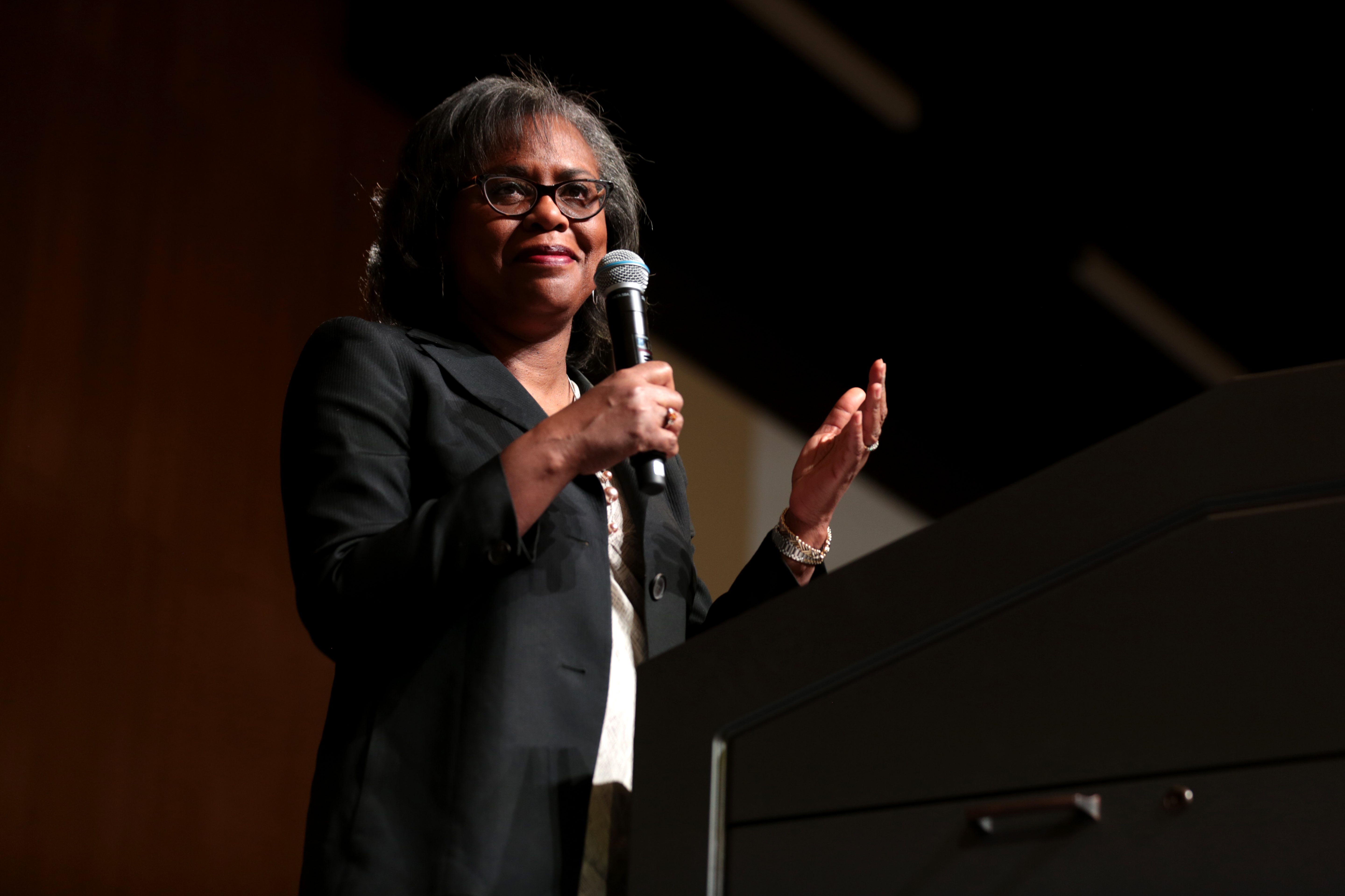 Anita Hill speaking with attendees at the John P. Frank Memorial Lecture at the Student Pavilion at Arizona State University in Tempe, Arizona.